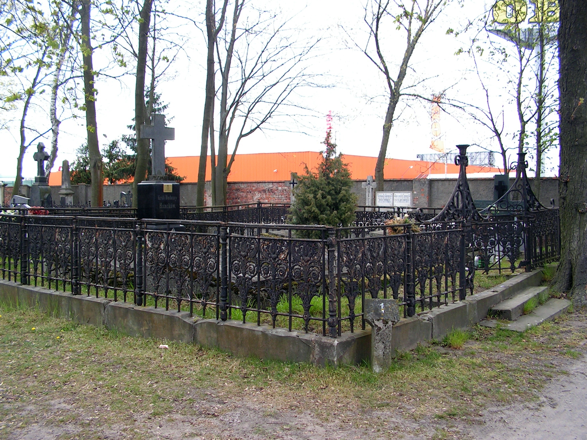 Grave of Haack family on Communal Cemetery in Włocławek.